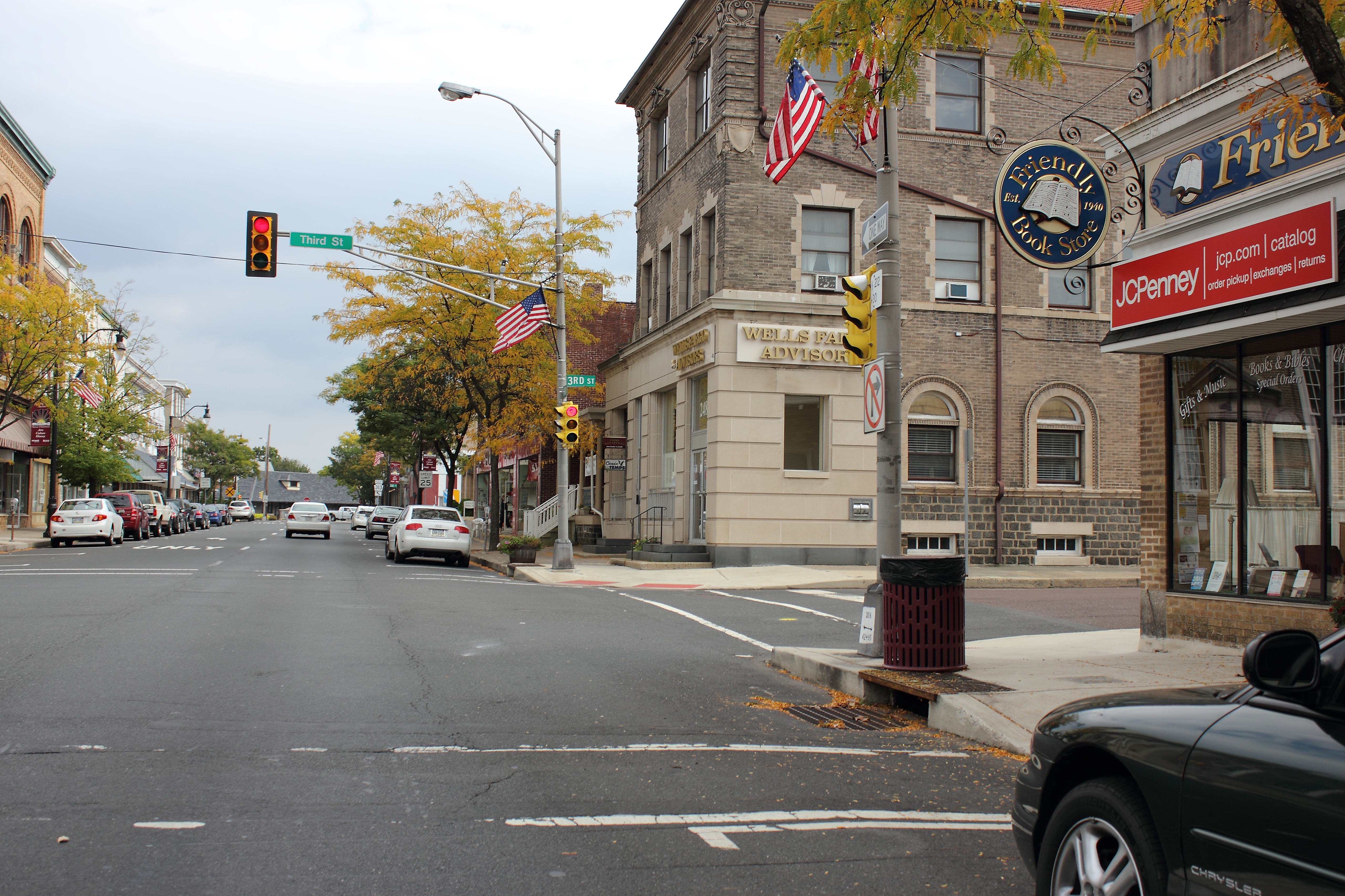 Quakertown Historic District